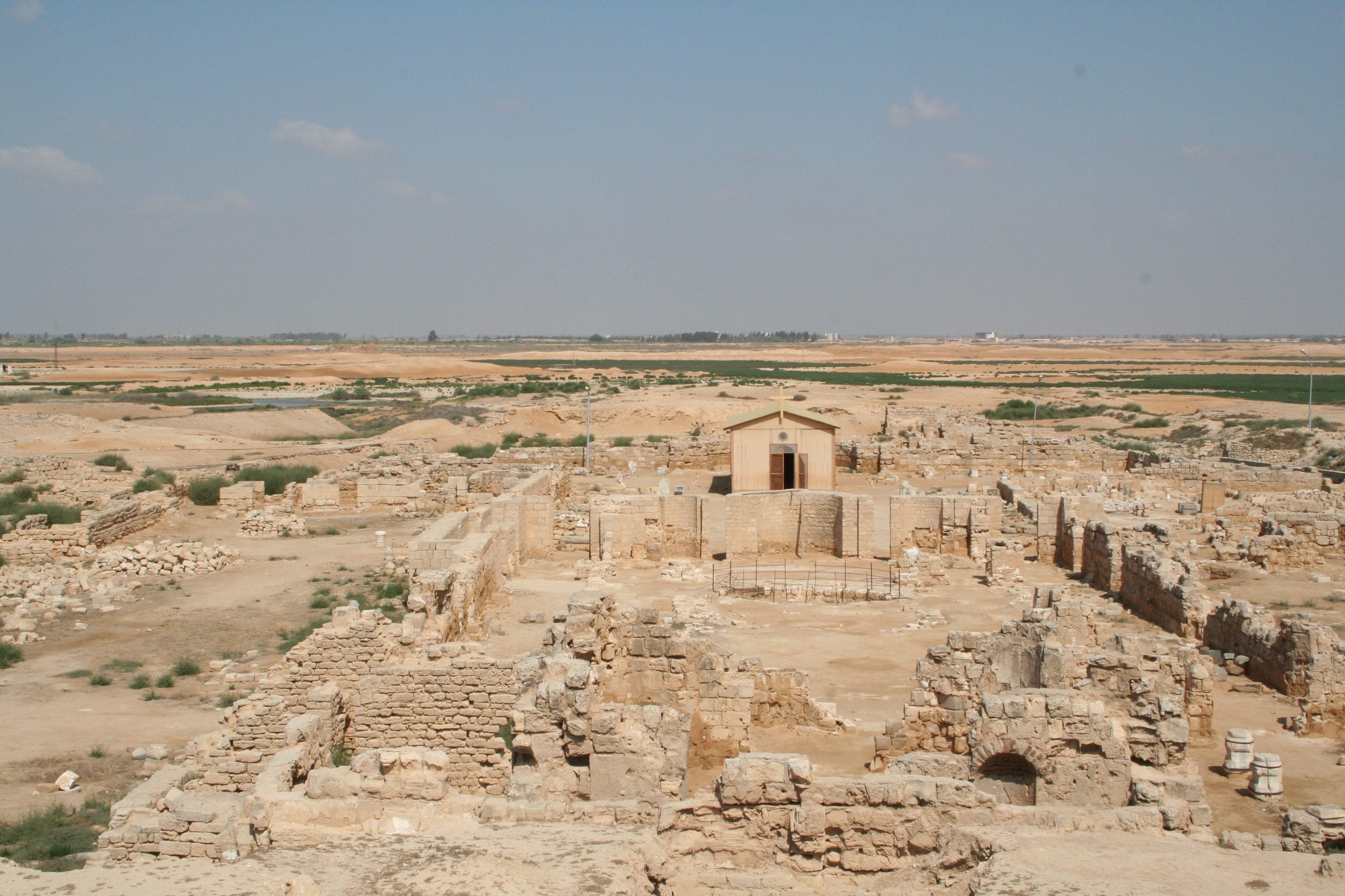 Abu Mena, ruins of the ancient monastery